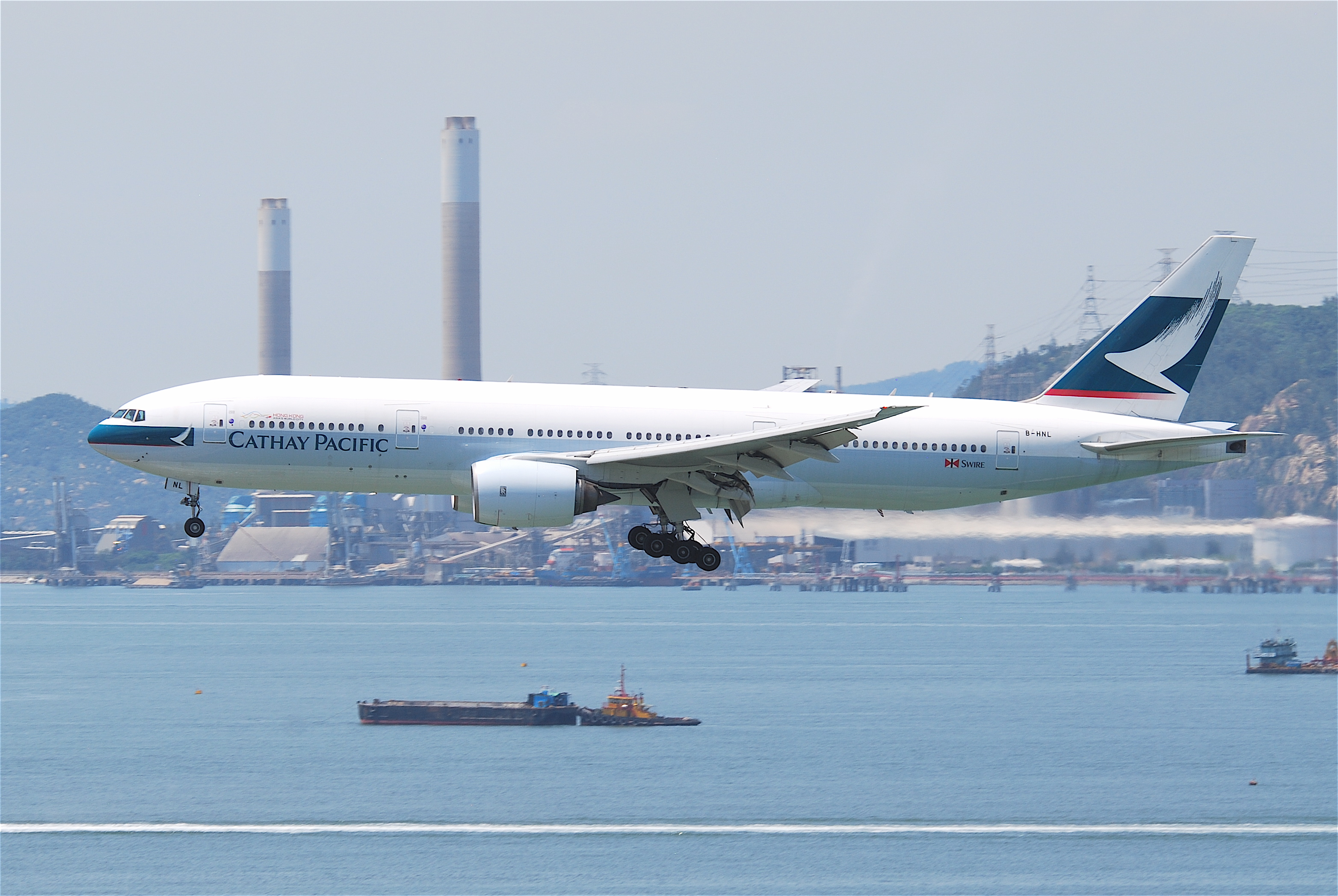 Cathay Pacific Boeing 777-200; B-HNL@HKG;04.08.2011/615pd